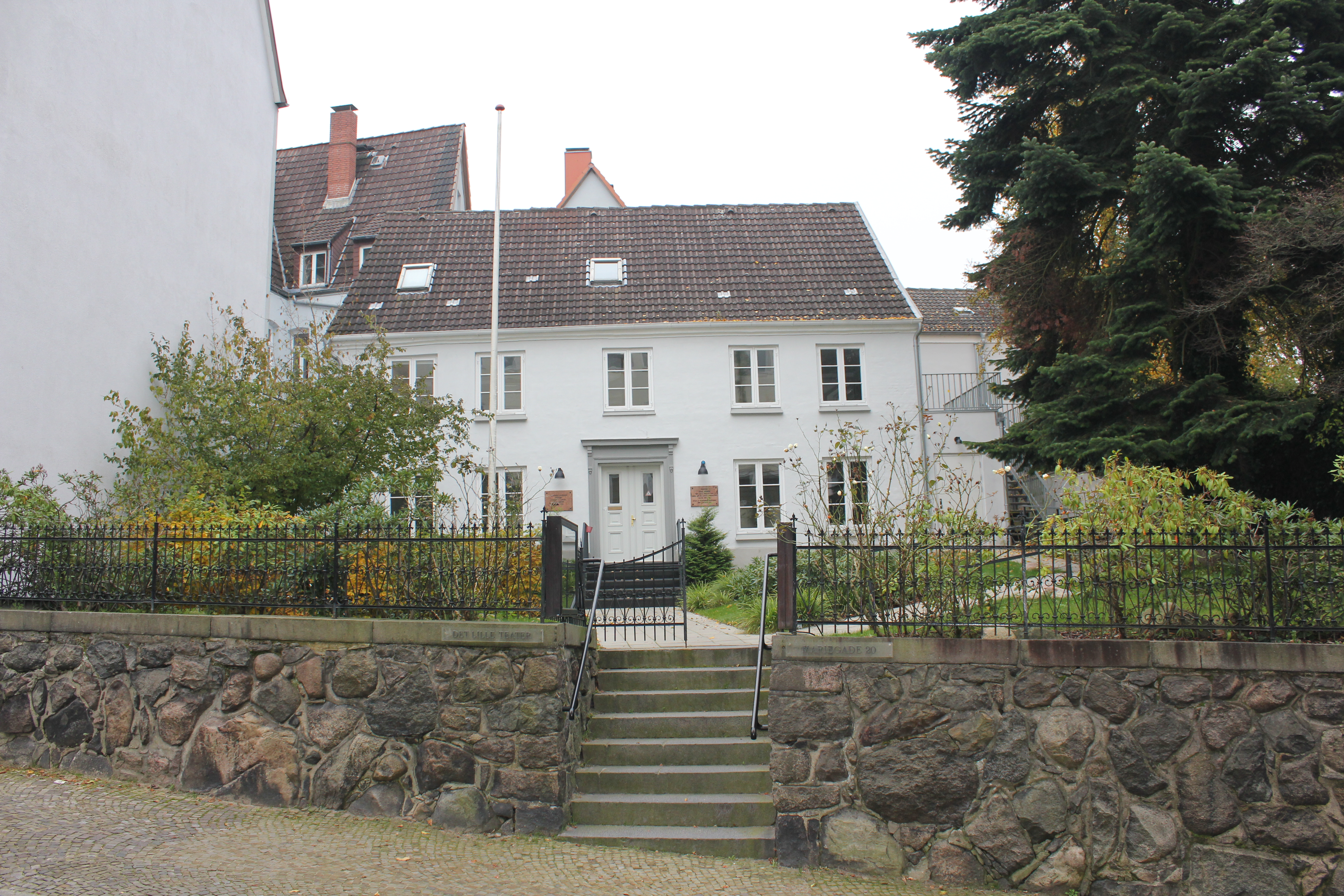 Det lille Teater in Flensburg